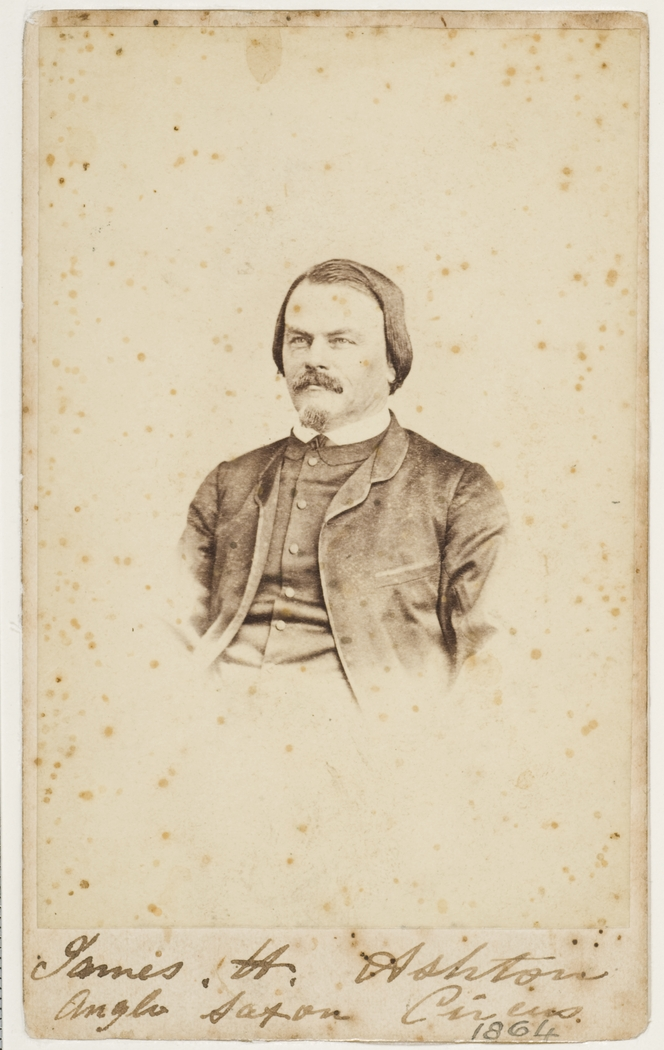 James H. Ashton from Anglo Saxon Circus (dien 1889)